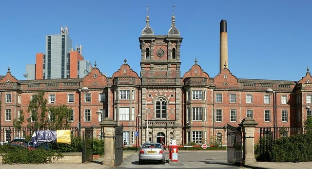 Thackray Museum, Leeds, West Yorkshire, England